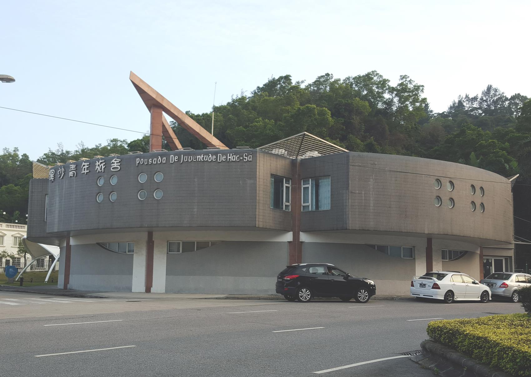 Hac Sa Youth Centre